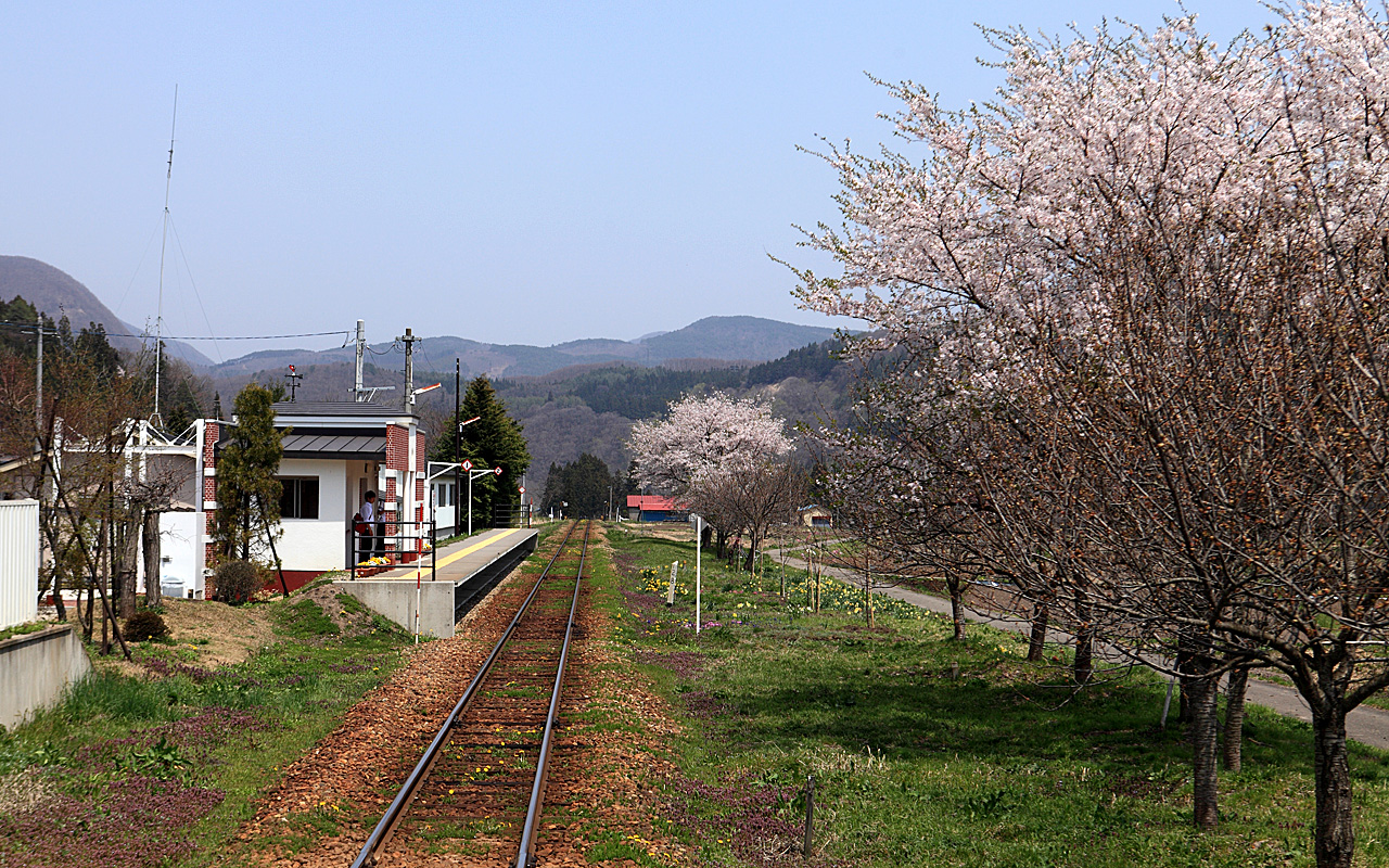 Aizu Railway Yagoshima Station